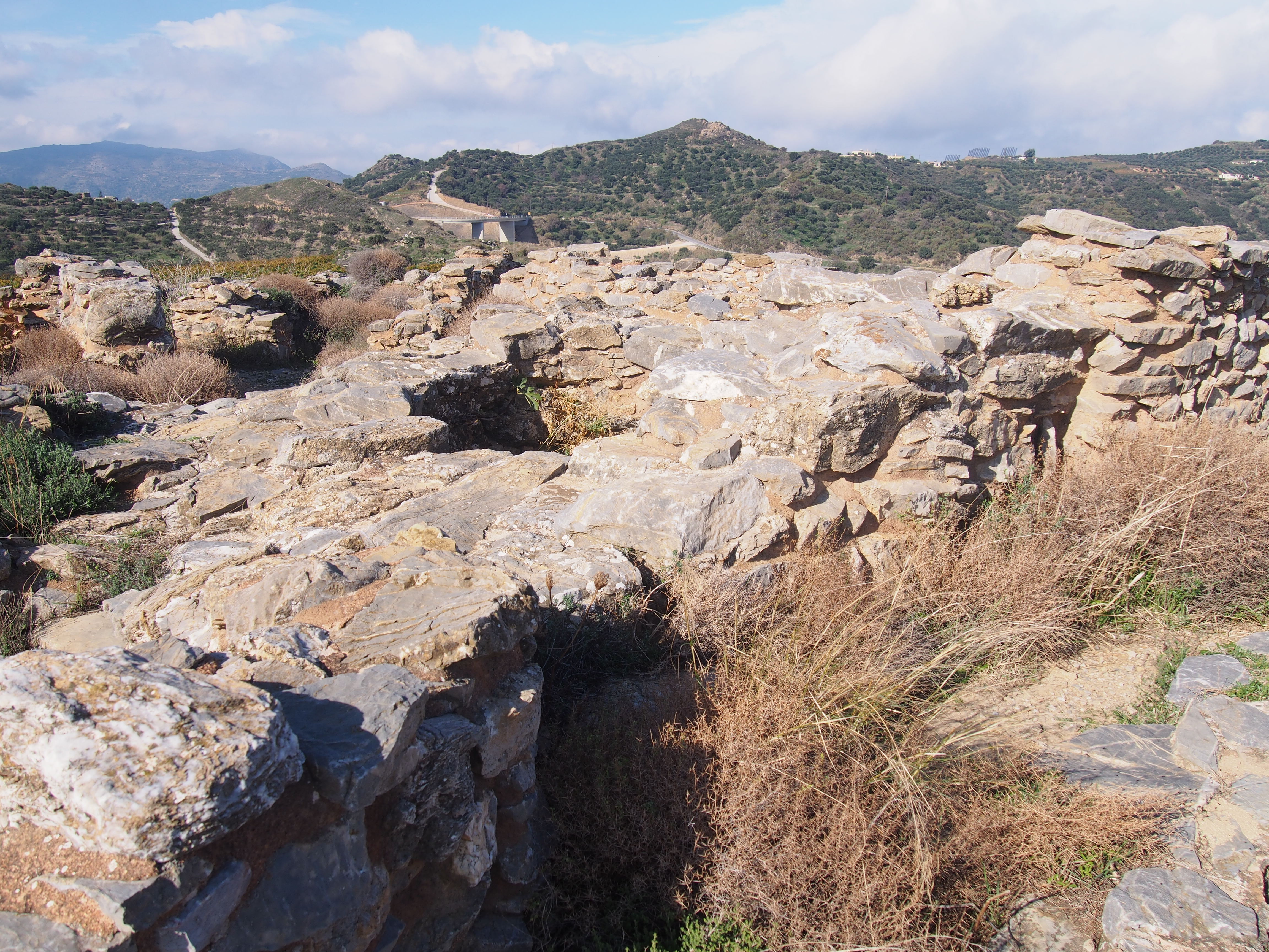 Minoan house of Chamezi, the central court, with the well.